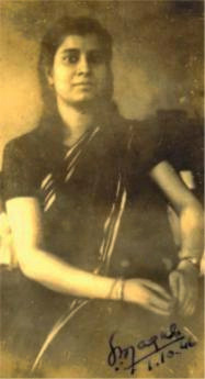 young Nurjahan Begum